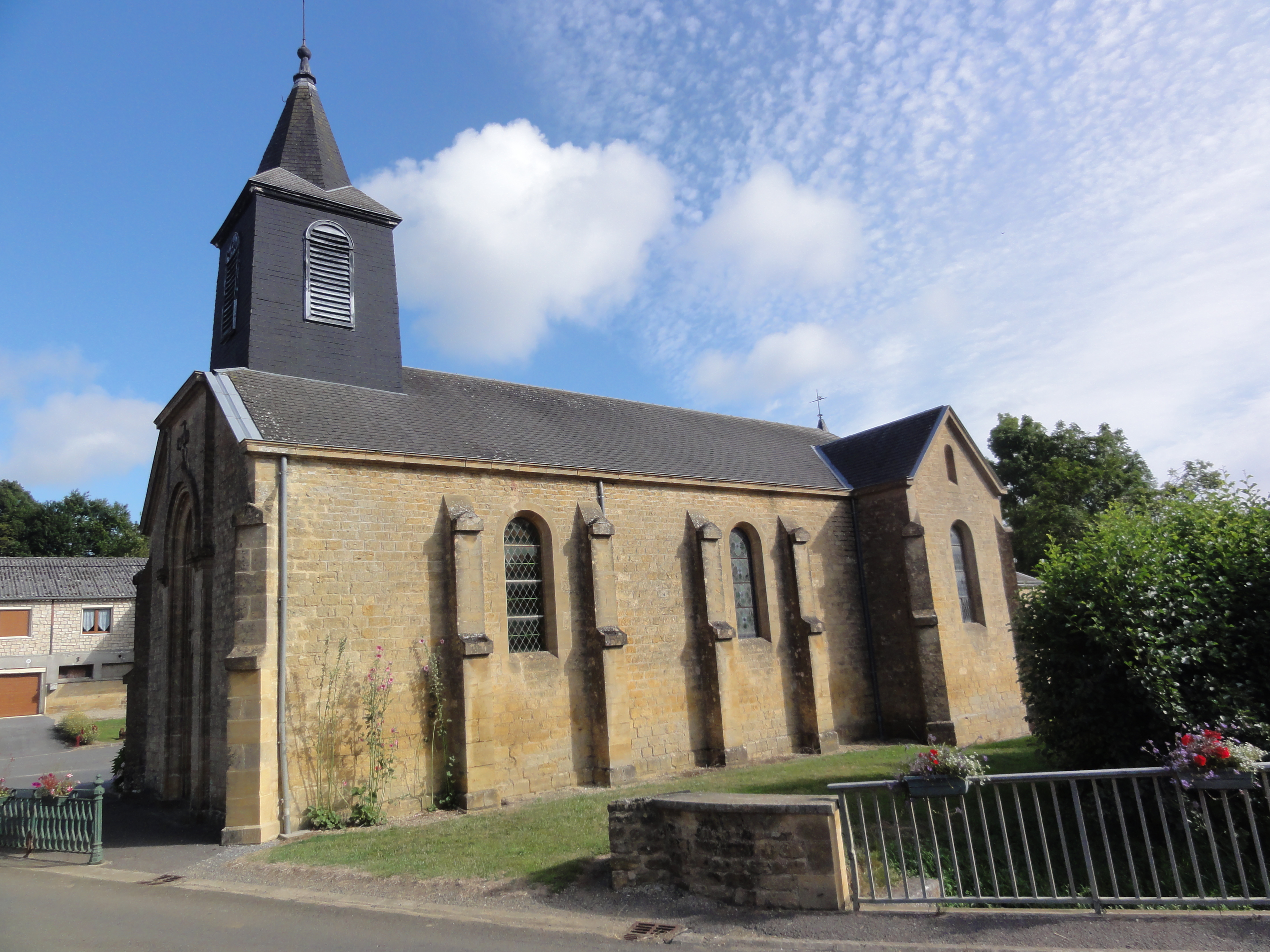 This (Ardennes) église, vue latérale